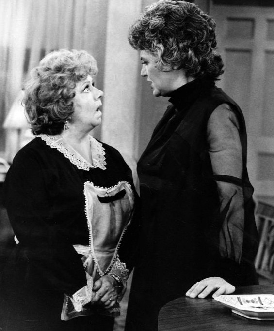 Publicity photo of Hermoine Badderly and Bea Arthur from the television program Maude.